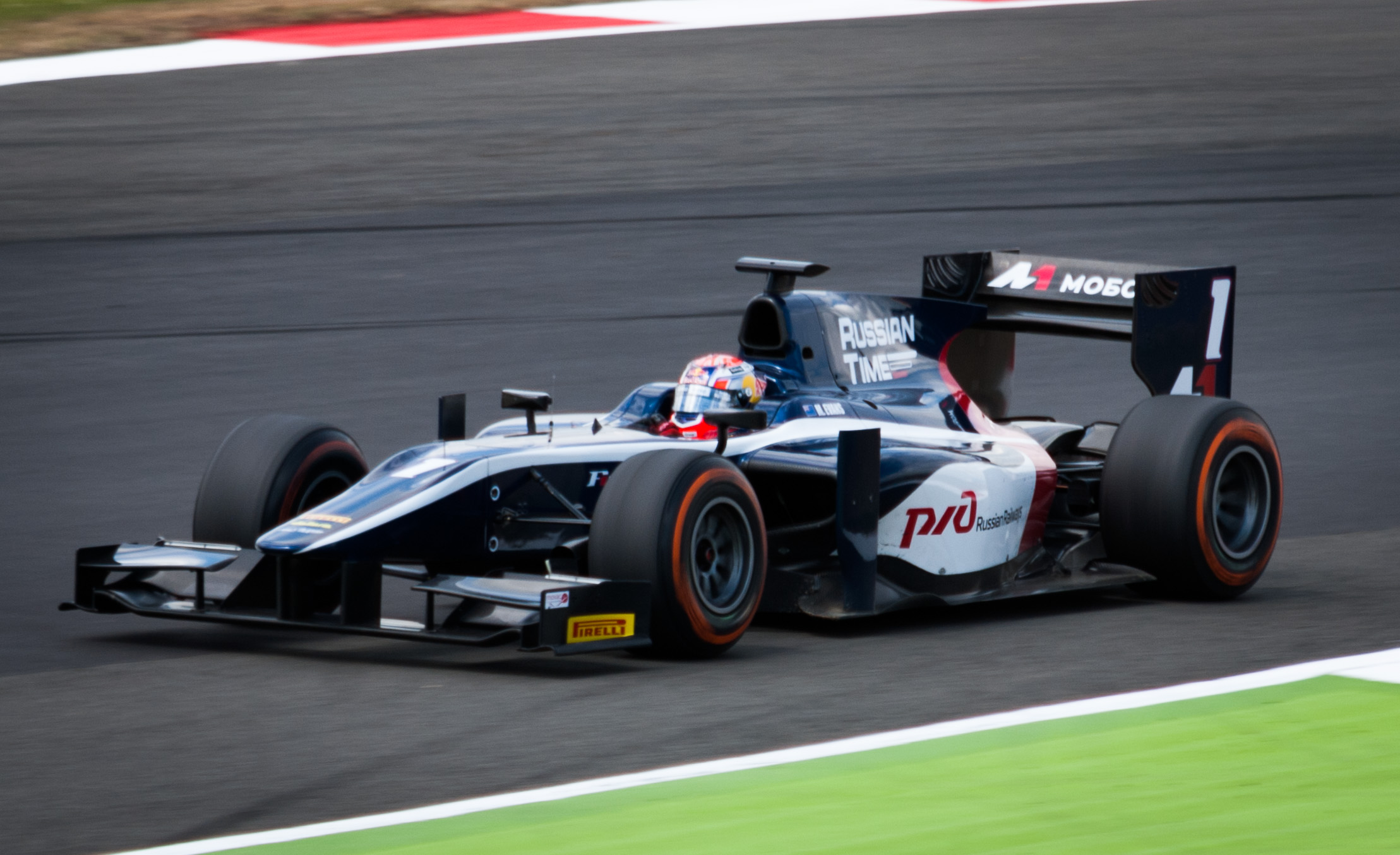 Mitch Evans driving for RT Russian Time at Silverstone. Round 5 of the 2014 GP2 Series Championship.